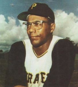 Professional baseball player Bob Veale